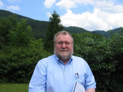 Mathematician Eduard Zehnder at the workshop “Dynamical Systems” in Oberwolfach, 2005.